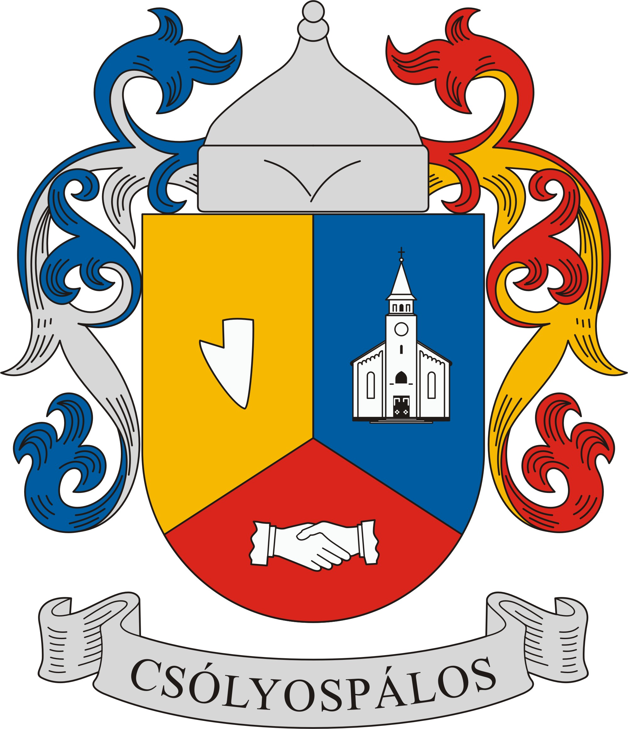 Coat of arms of Csólyospálos, Hungary